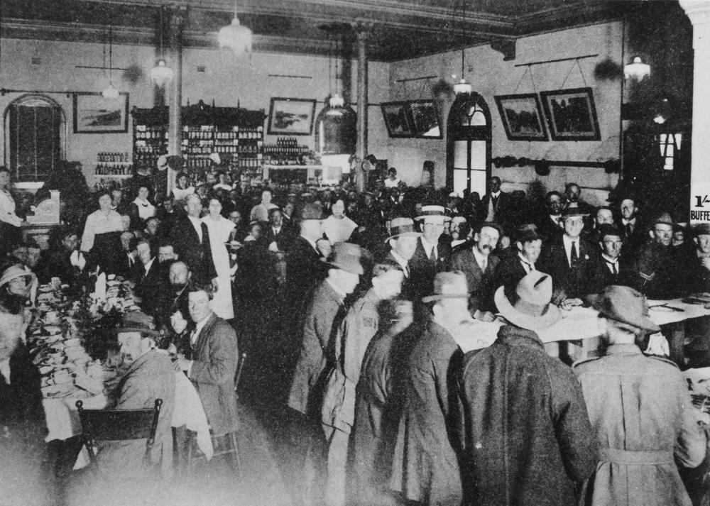 Busy Toowoomba Railway Refreshment Room, ca. 1919.